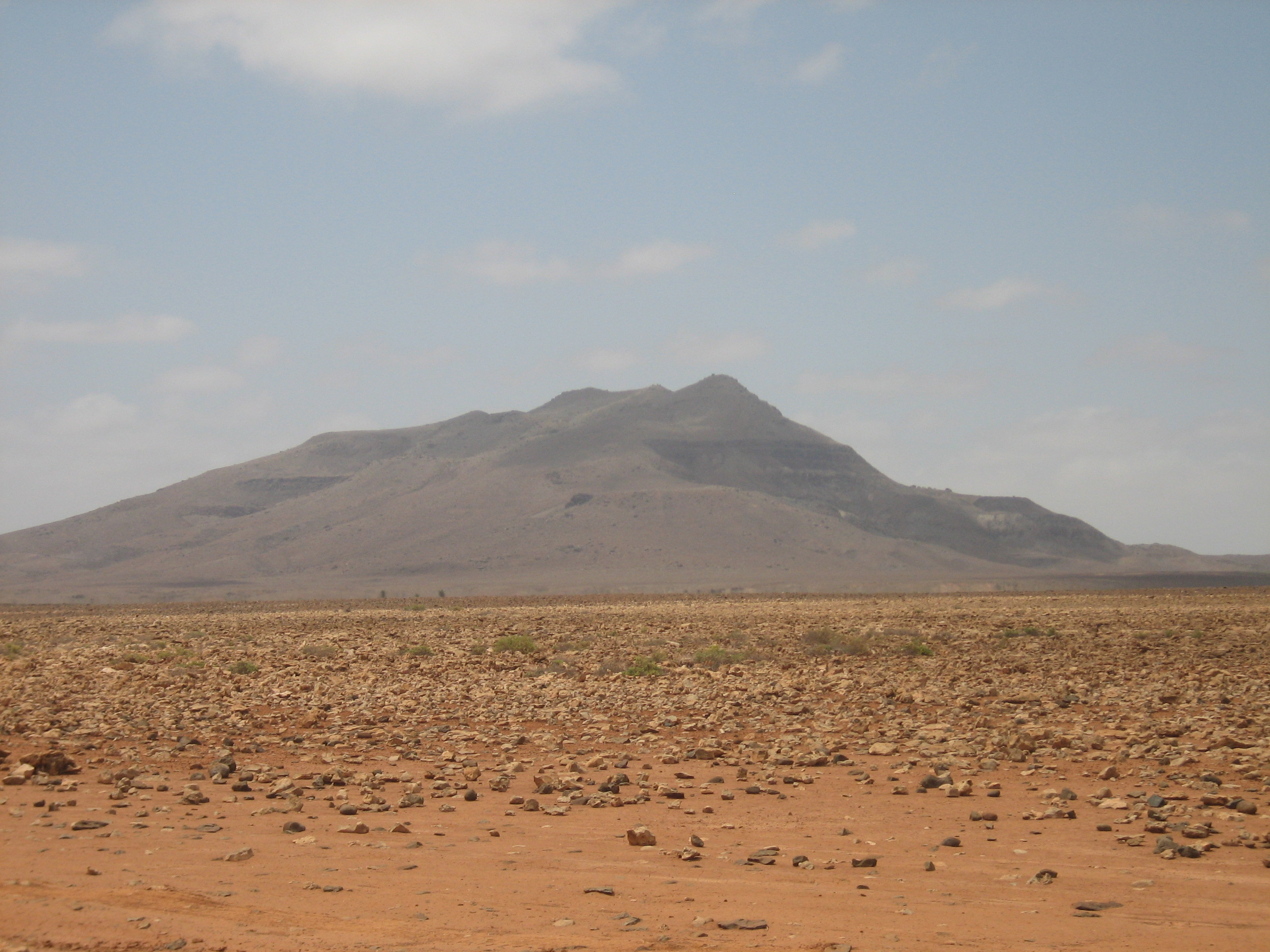 Monte Estância, the highest mountain of Boa Vista, seen from the east